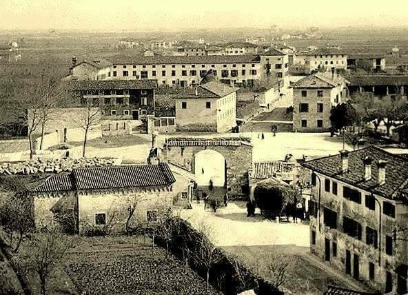 Porta Pracchiuso 3